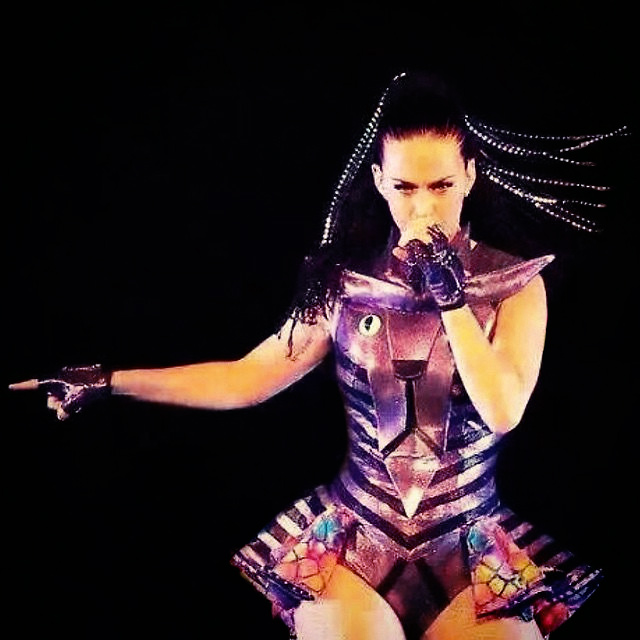 Katy Perry in Shanghai